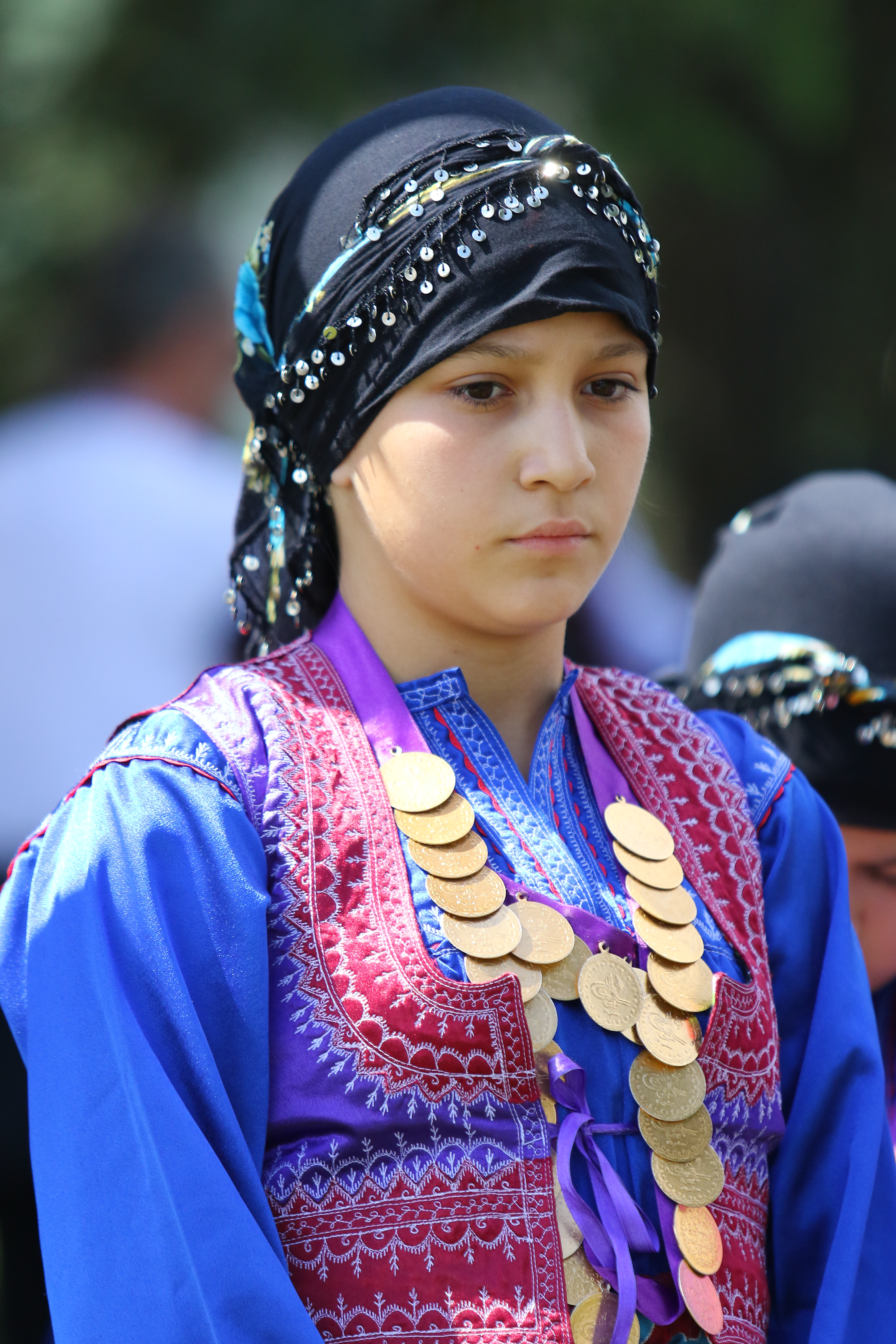 A girl from Turkey dressed in Turkish national costume. This photo has been taken in the country: Turkey